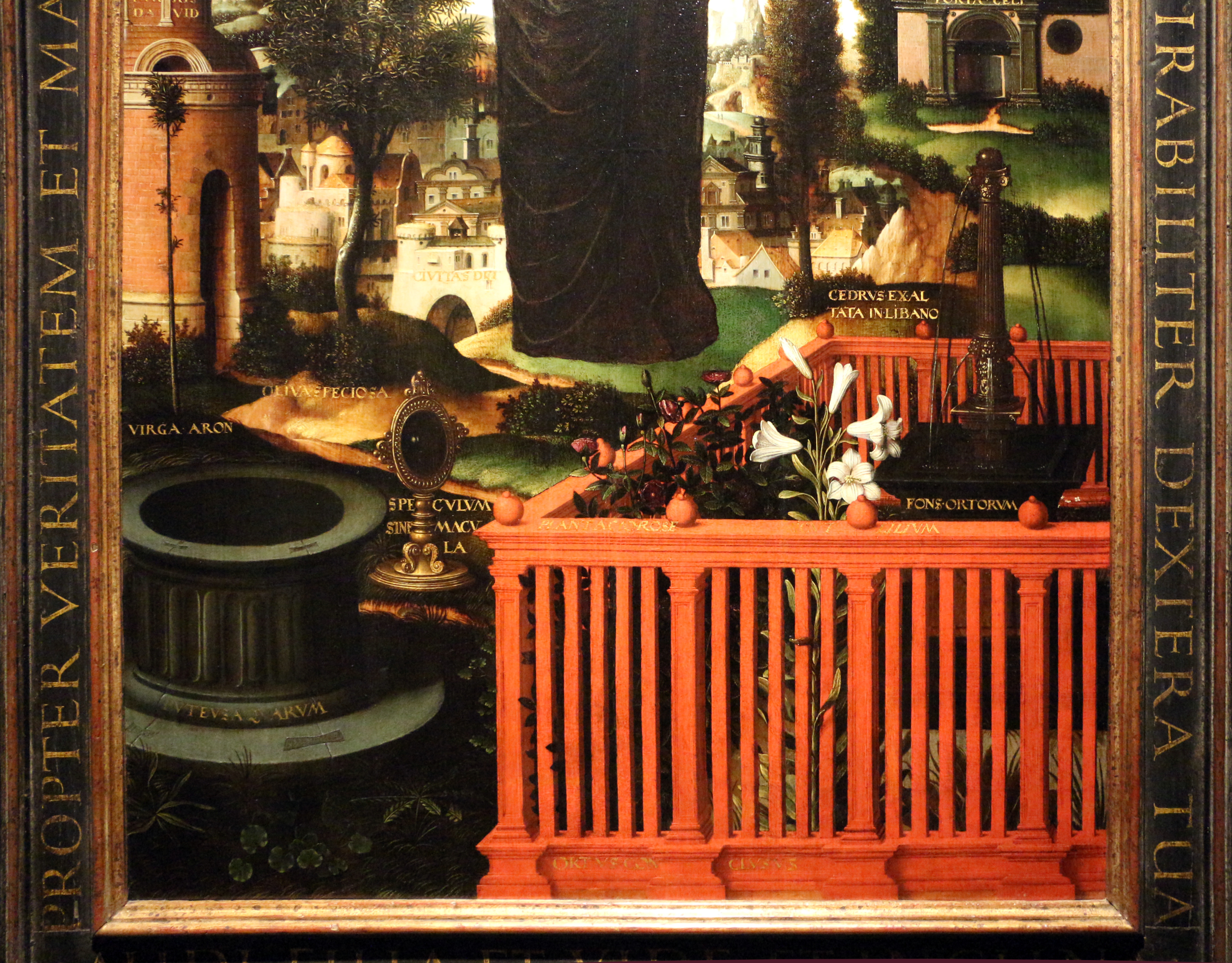 Flemish paintings in the Bonnefantenmuseum